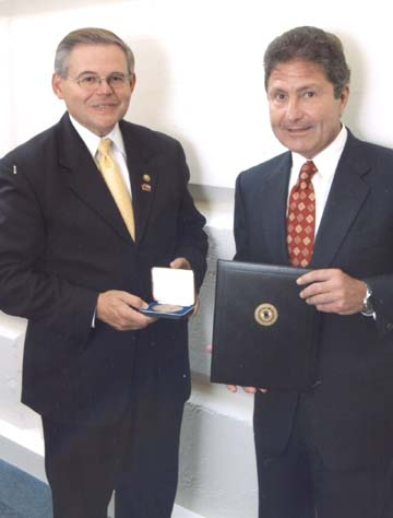 July 22, 2003 -- Rutgers President, Richard McCormick, presents Congressman Robert Menendez with the Rutgers Medal.